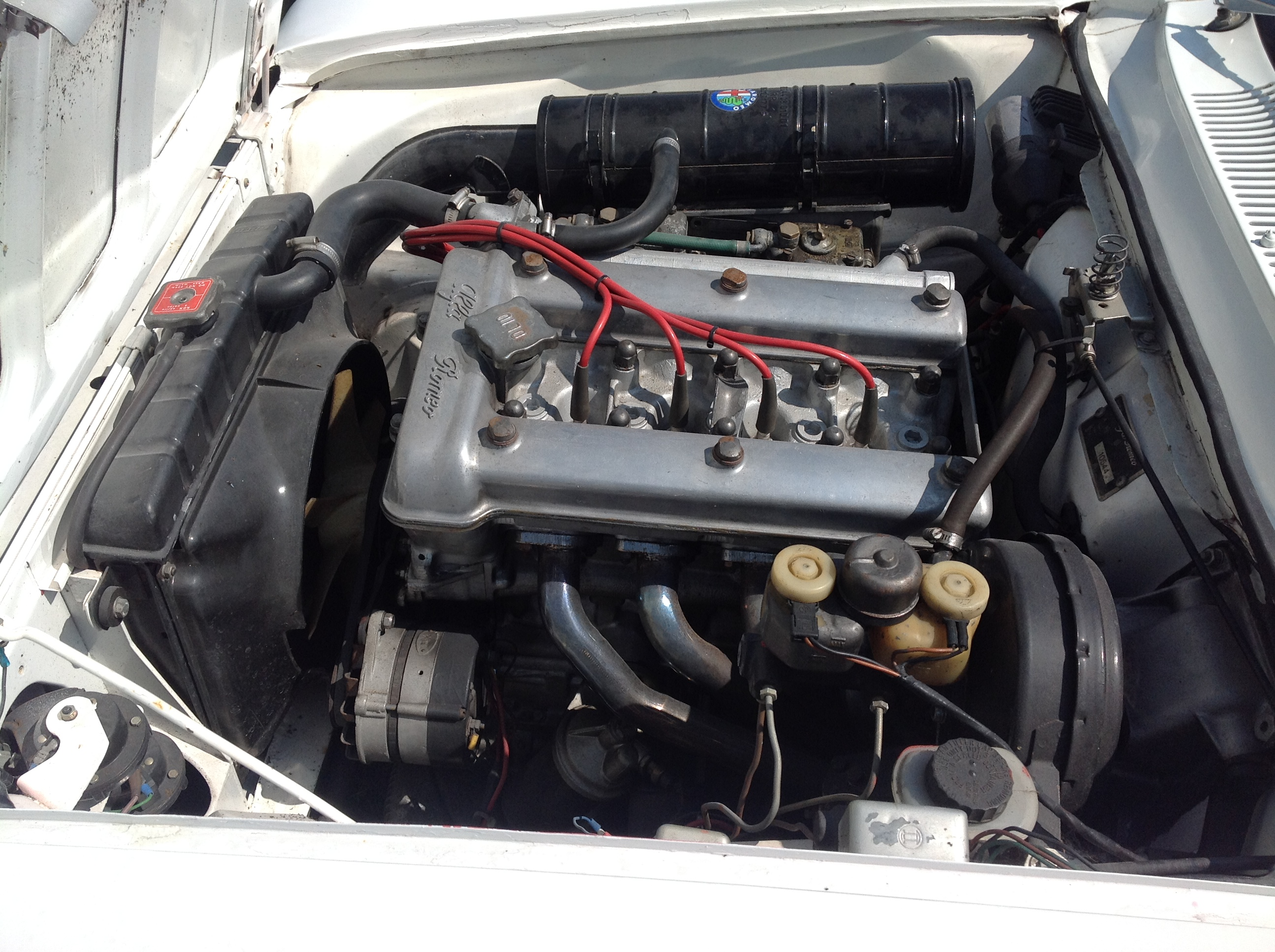 Spotted at Weymouth Vehicle Preservation Society's "Dorset Tour" on 29 May 2016.